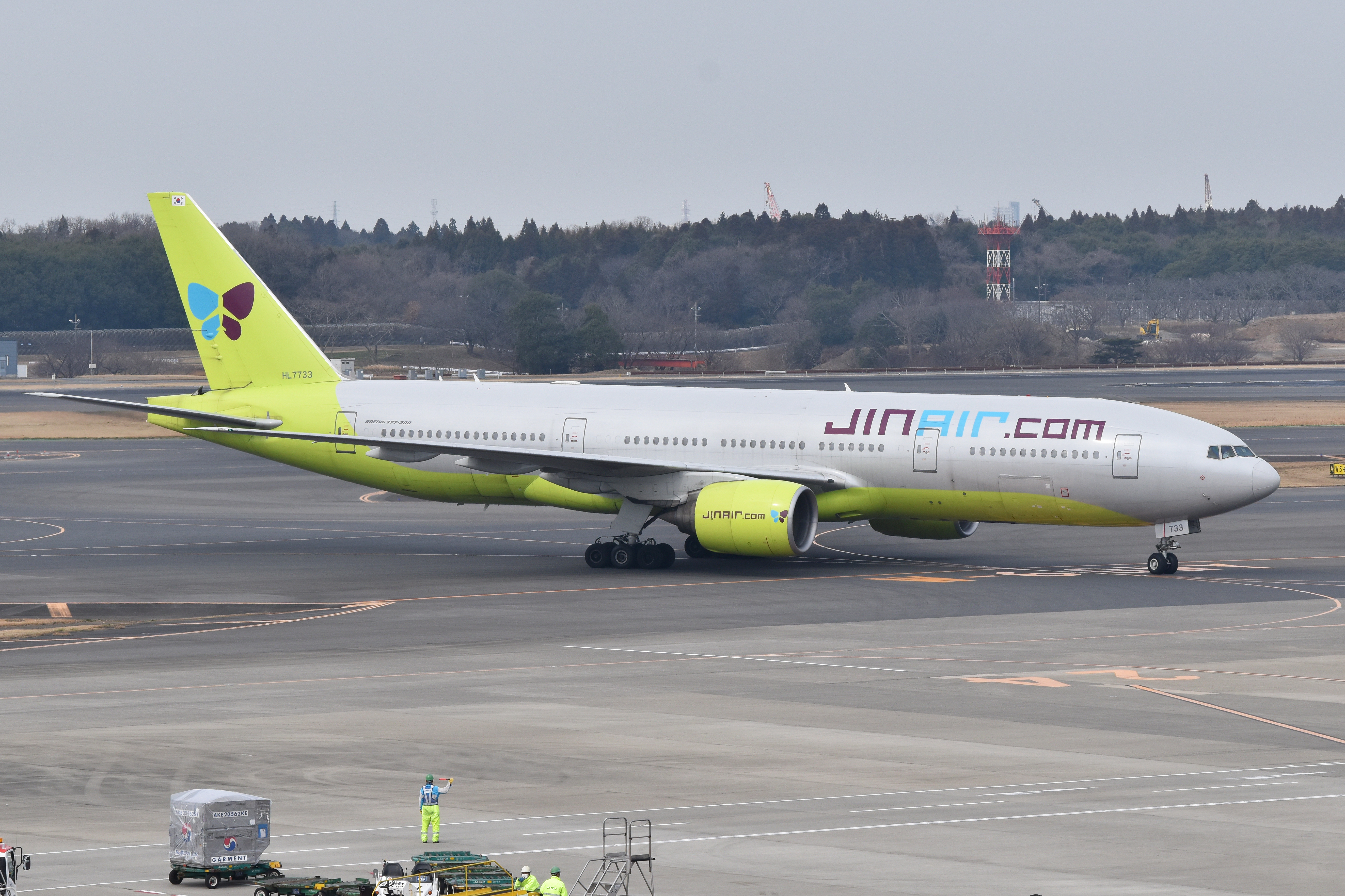 c/n 34206, l/n 520 Built 2005 for Korean Air. Joined Jin Air in July 2015 Taxiing in after arriving on flight LJ201 / JNA201 from Seoul Incheon Seen from Terminal 1 viewing terrace. Narita International Airport Tokyo, Japan 16th March 2019